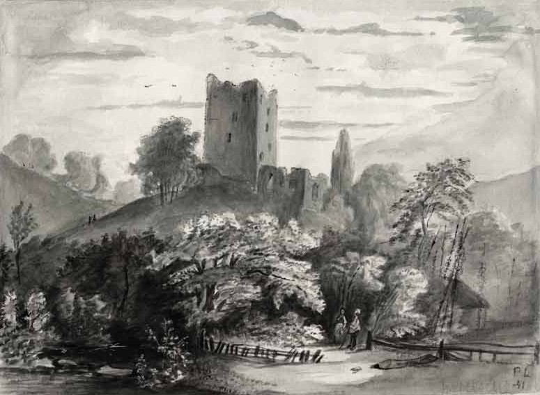 Ruines du Château de Poulseur (1841)